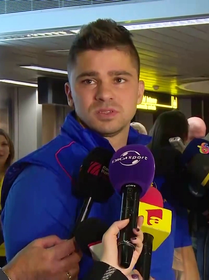 Romanian international rugby union player, Valentin Calafeteanu, is seen during a press conference in October 2015 shortly before arriving from the 2015 Rugby World Cup